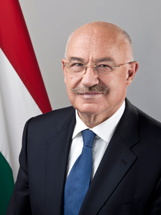 János Martonyi, Hungarian politician, Minister of the Foreign Affairs in the Second Cabinet of Viktor Orbán